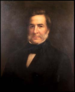 Portrait of John Notman by Samuel Bell Waugh, 1845. Philadelphia Architects and Buildings